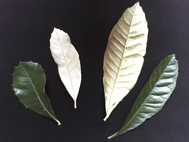 Comparison of the leaves of Brachylaena discolor var. discolor (two left) and Brachylaena discolor var. transvaalensis (two right)